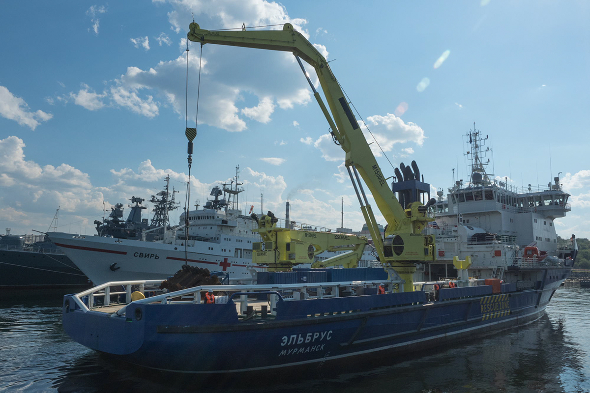 Elbrus logistics ship (project 23120).